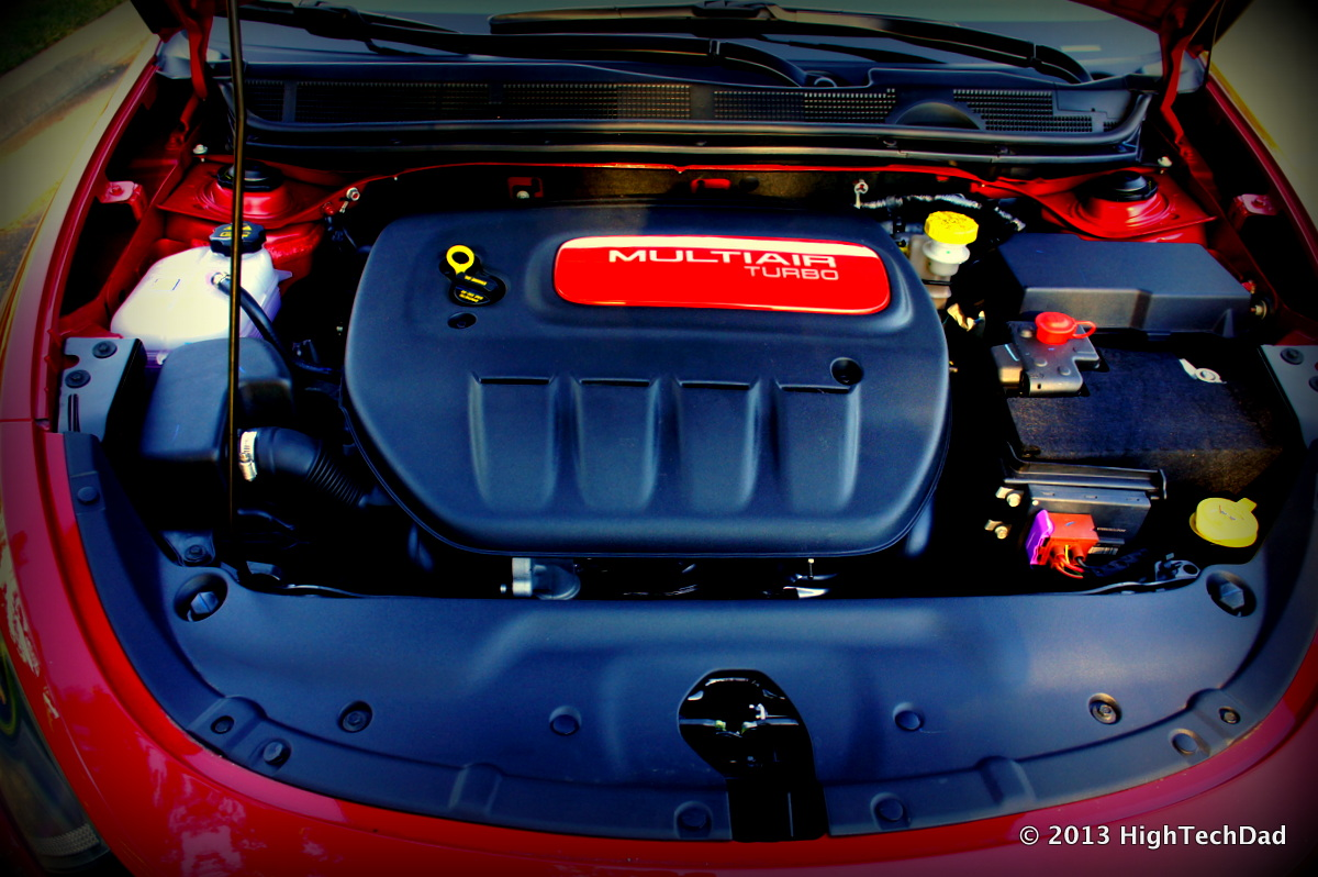 Photos from a 7 day test drive of the 2013 Dodge Dart Rallye. The full review can be found at